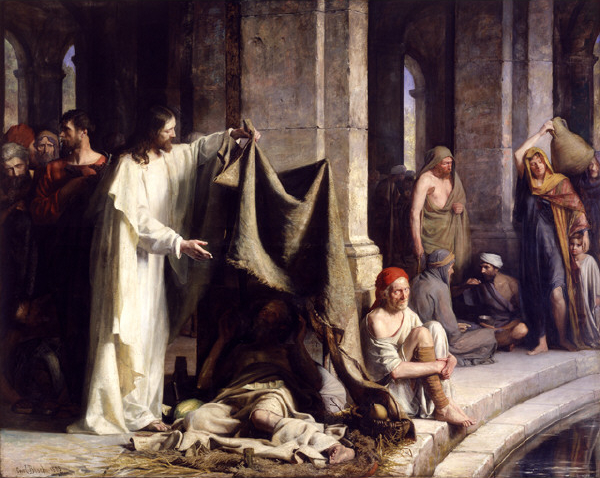 Christ Healing the Sick at Bethesda